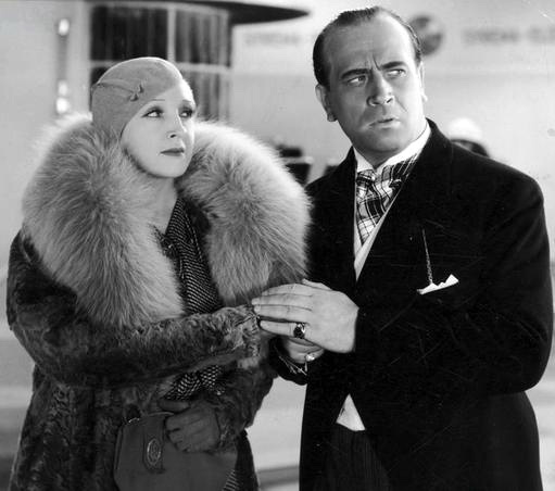 1933 film "Szpieg w masce": Hanka Ordonówna as Rita Holm (singer and intelligence agent), Bogusław Samborski ("Pedro" agency manager).